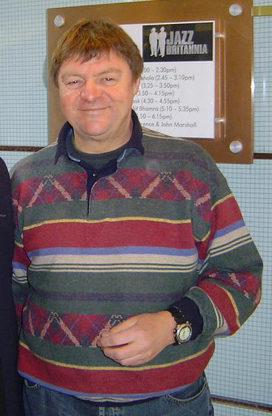 John Surman (cropped version)